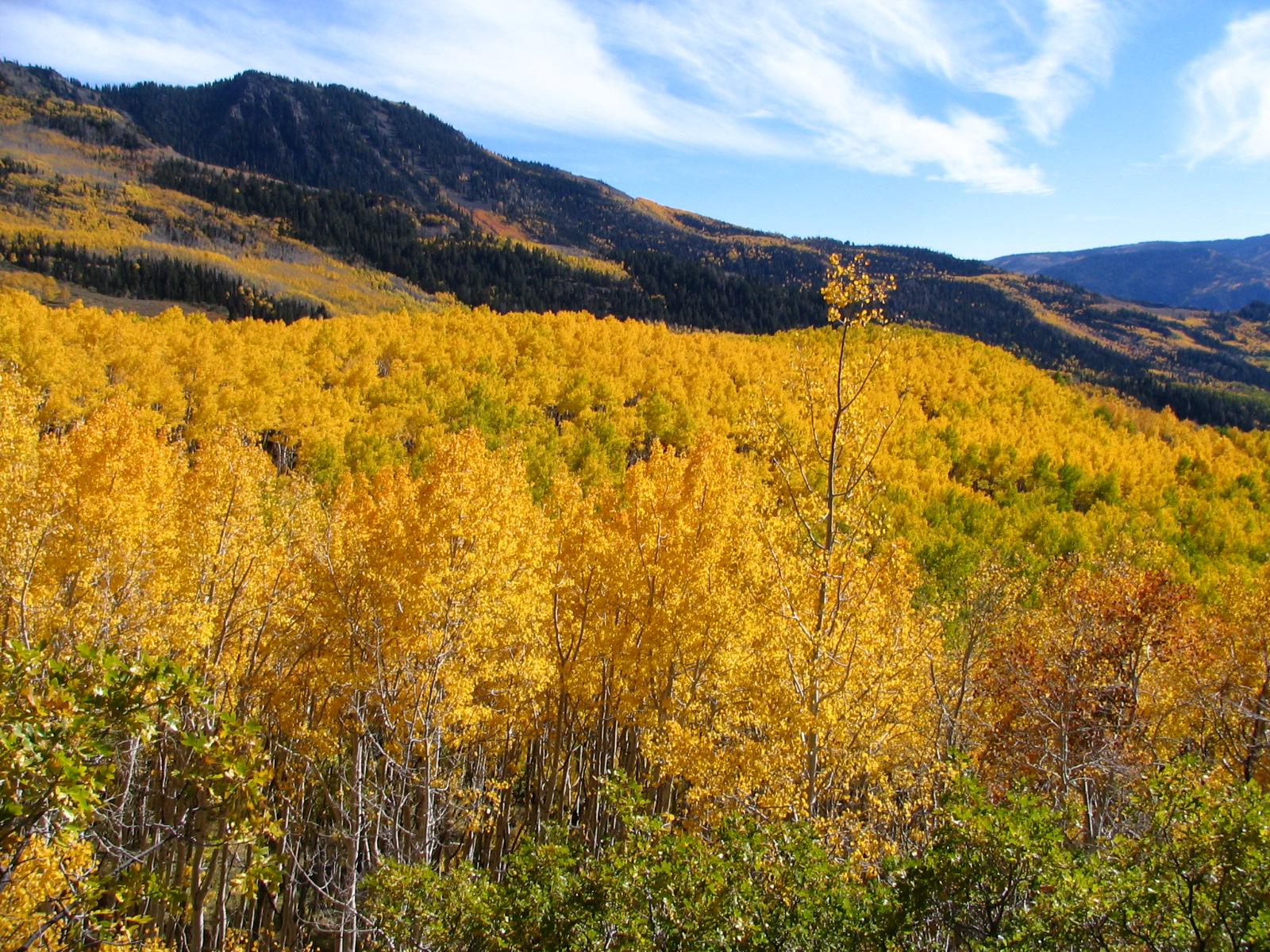 Aspens, Richfield Ranger District, Fishlake National Forest, Utah, United States